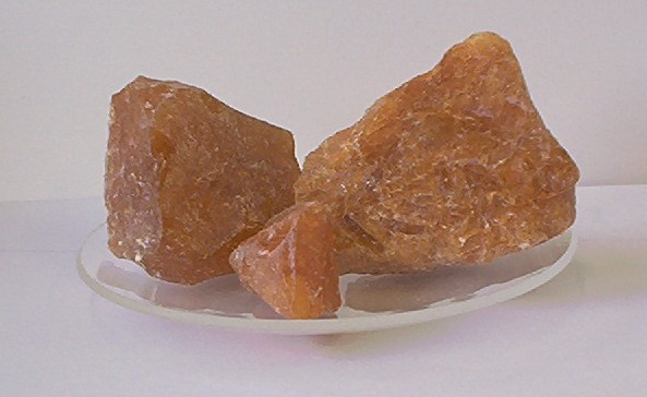 Rosin